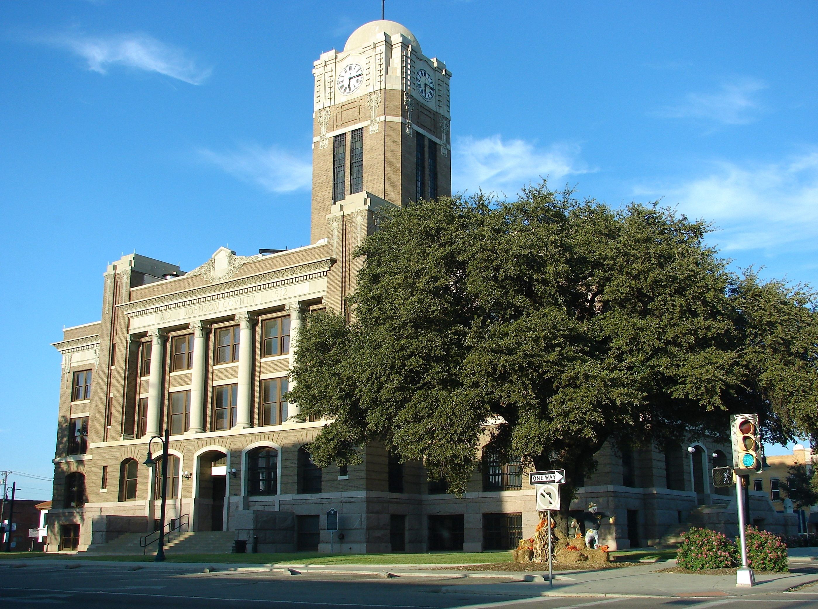 Johnson County Courthouse in Cleburne, Texas.